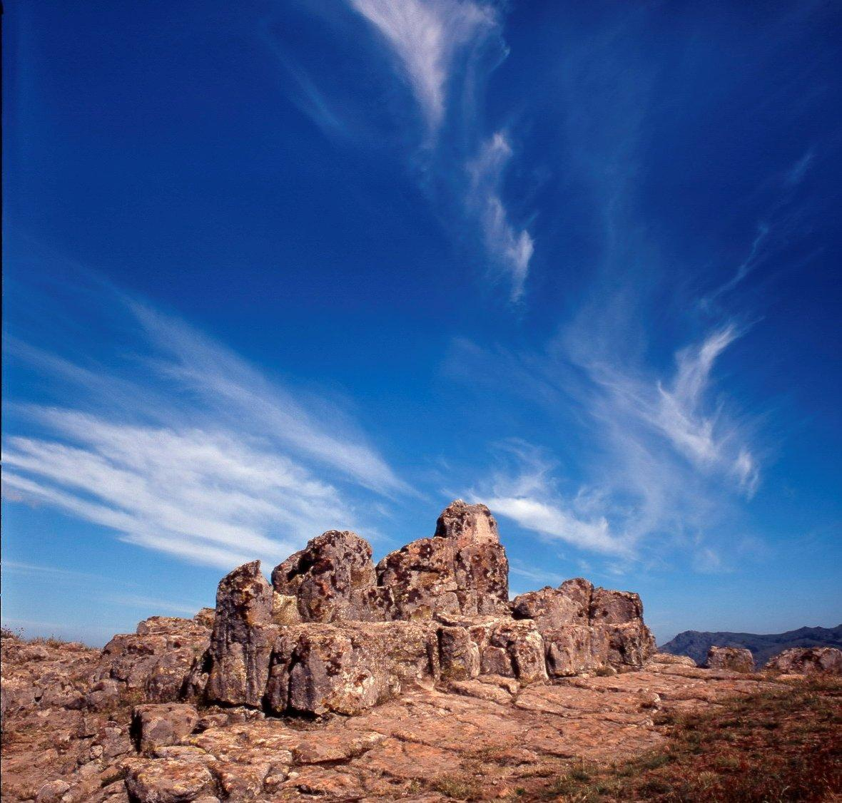 Megalithic Observatory Kokino near Kumanovo in Macedonia